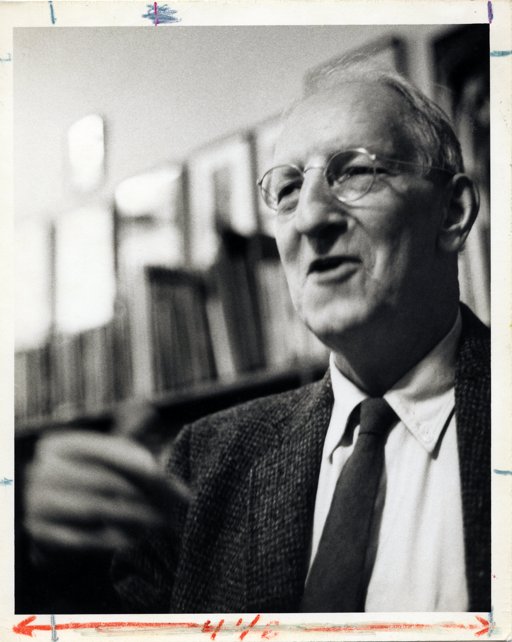 Gordon Cairnie at Grolier Bookshop, 1960s. By Elsa Dorfman.